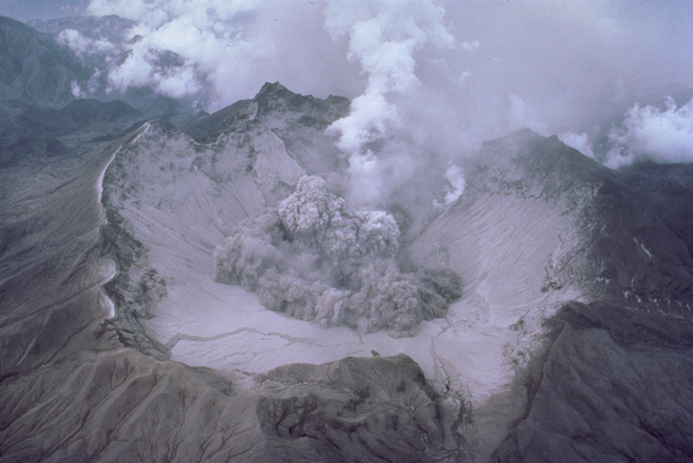 The summit caldera on August 1, 1991, a month and a half after the June 15 climactic eruption.